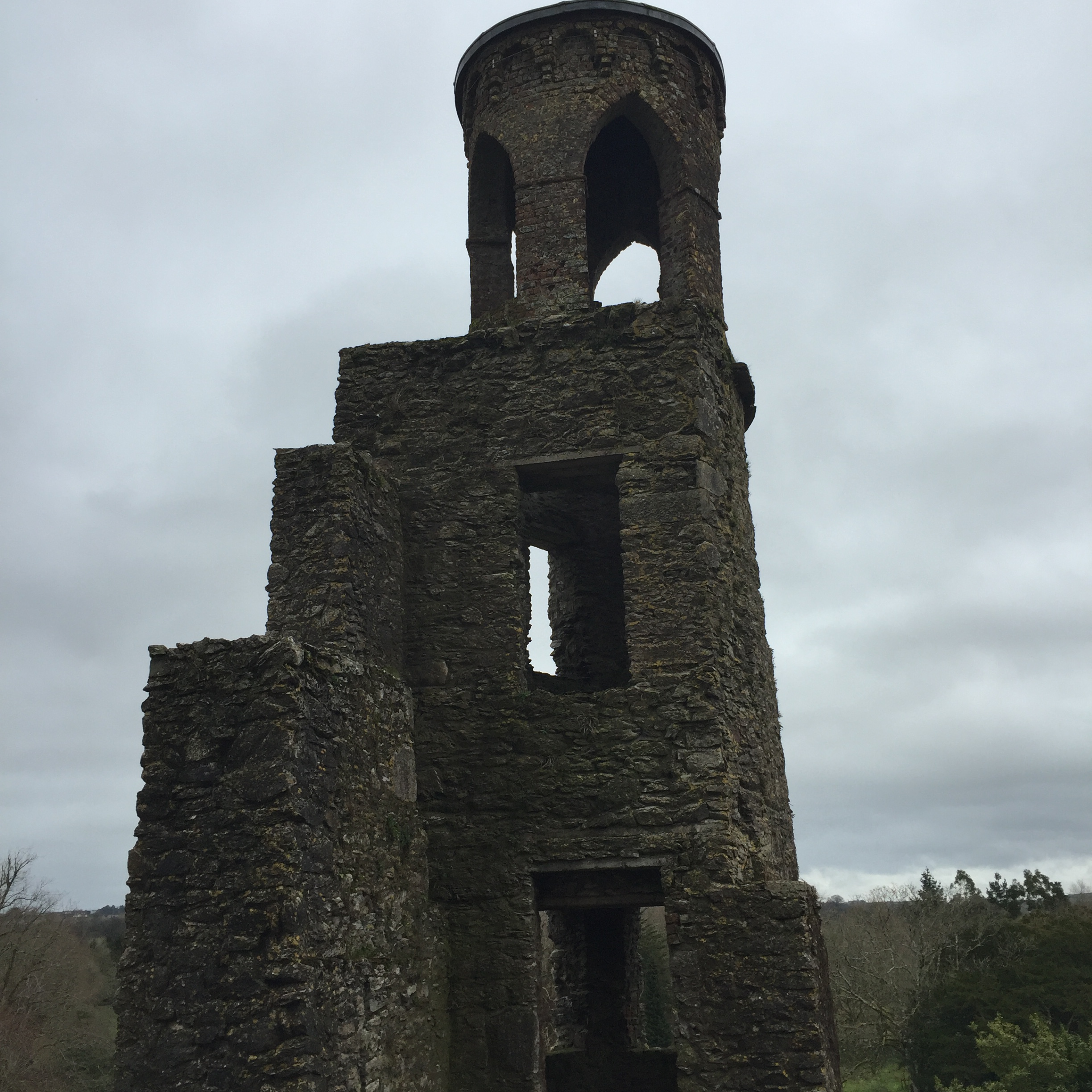 Blarney Castle Tower